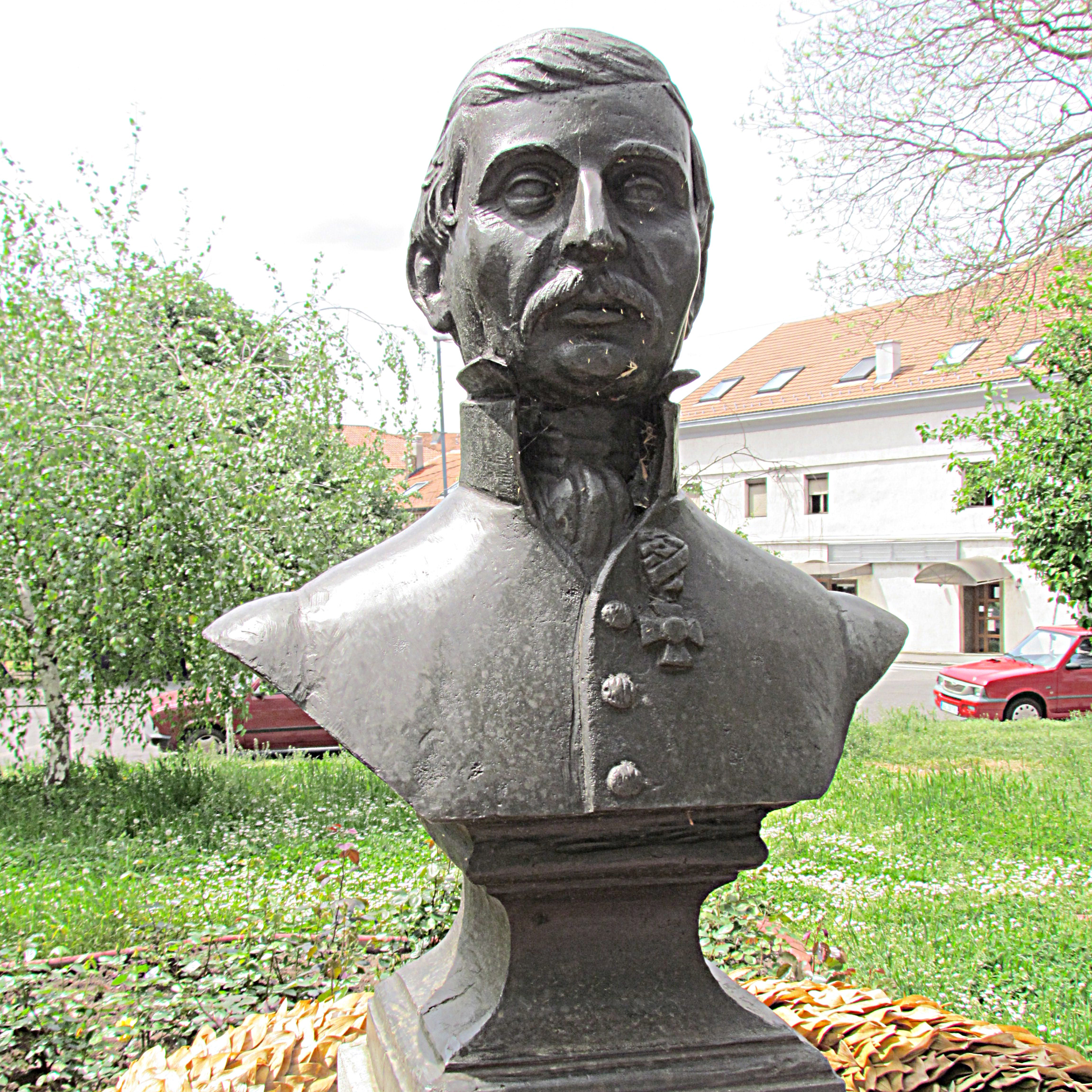 Monument of Dimitrije Davidović Serbian politician, Zemun